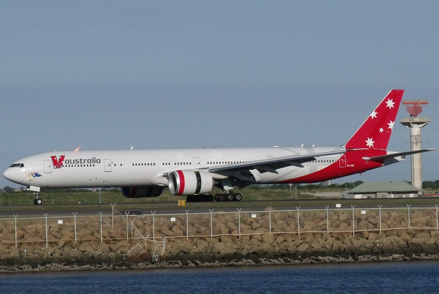 V Australia 777 just landed in Sydney from Los Angeles.